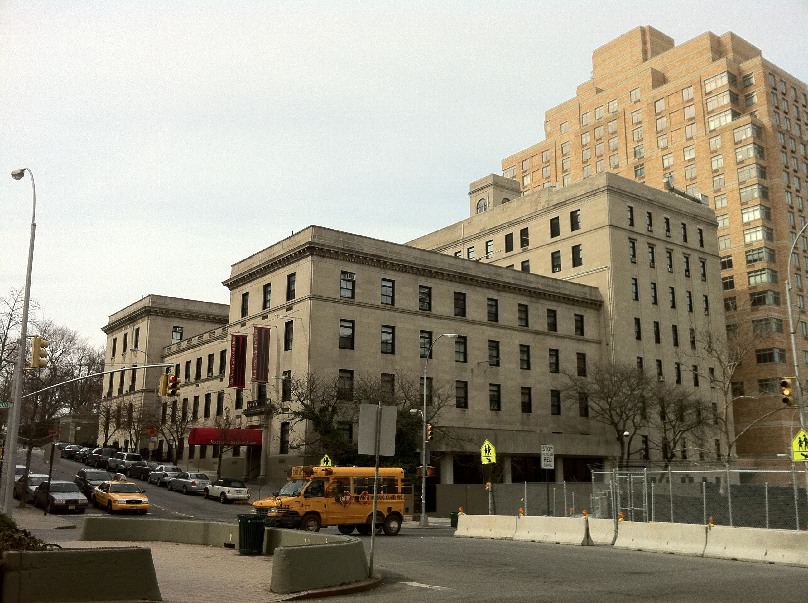 Manhattan School of Music at 122nd St and Broadway.